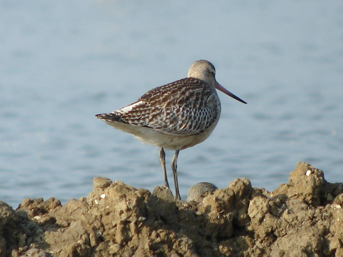 Bar-tailed Godwit (Limosa lapponica) - Photographed at Teich Bird Reserve, France